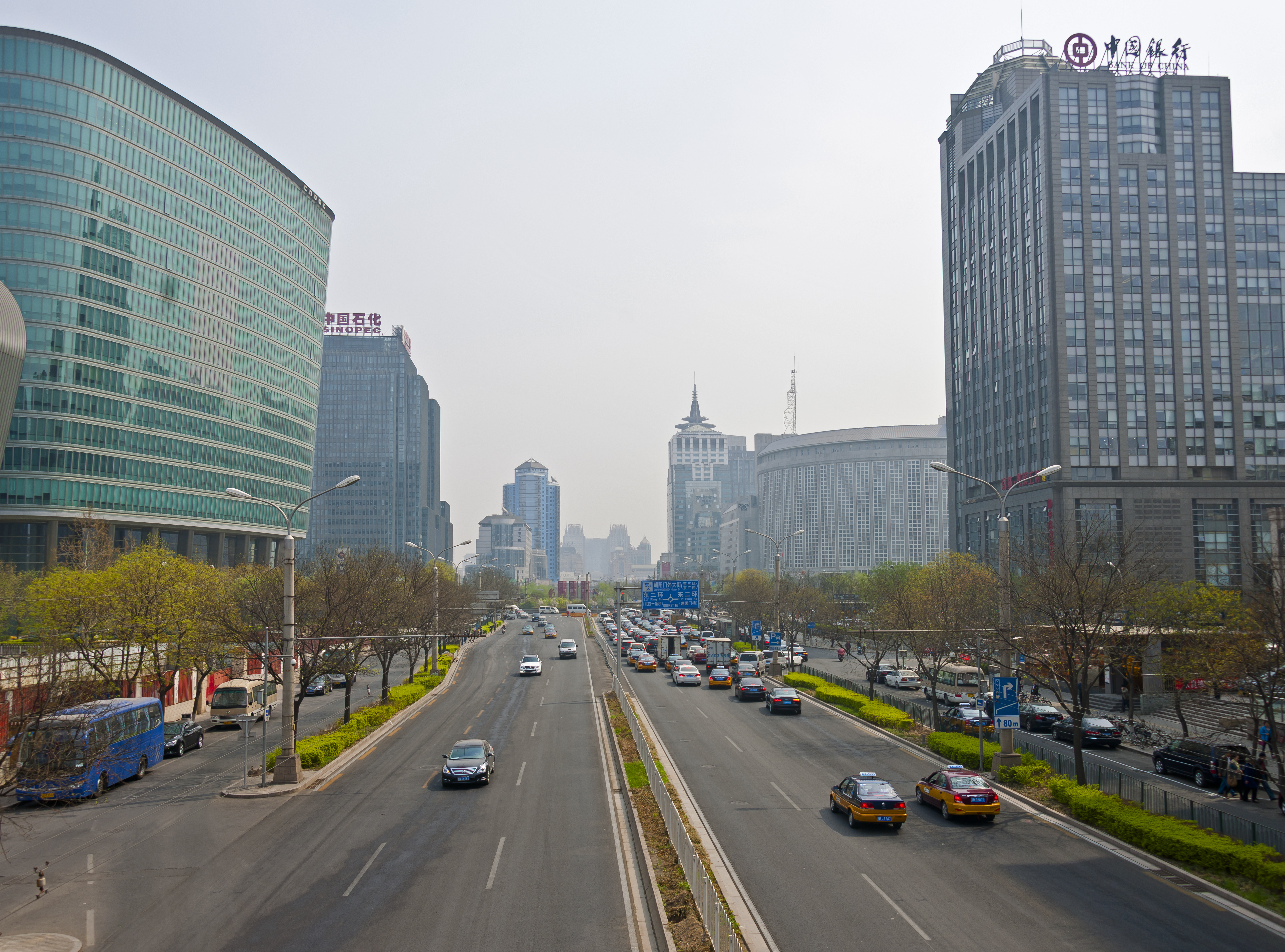 Looking east towards Chaoyangmen, Beijing, from pedestrian overpass over Chaoyangmen Inner Street just east of Second Ring Road junction. CNOOC headquarters building is on left.